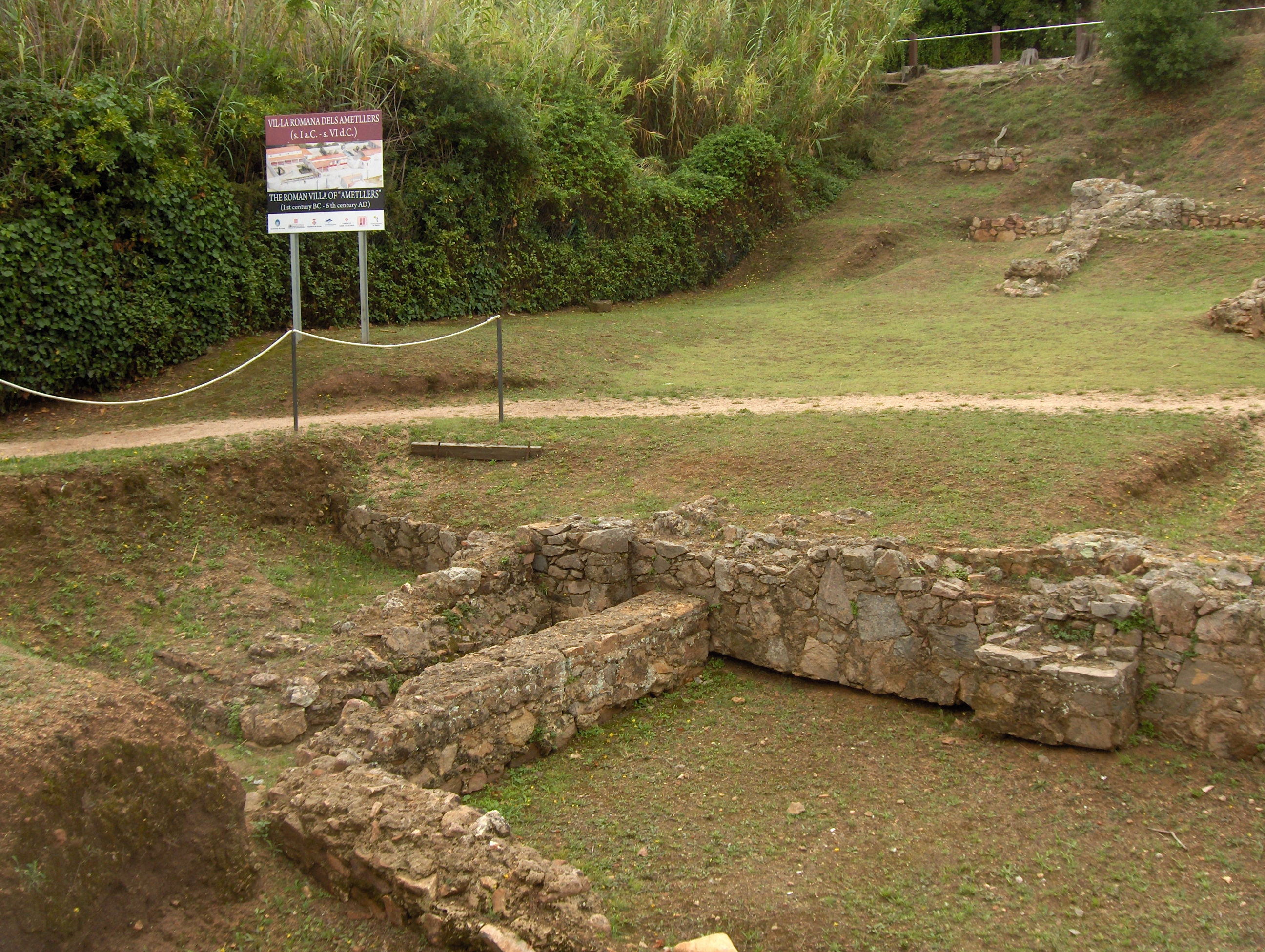 Excavation of the Roman villa of Ametllers, Tossa de Mar, Catalonia, Spain